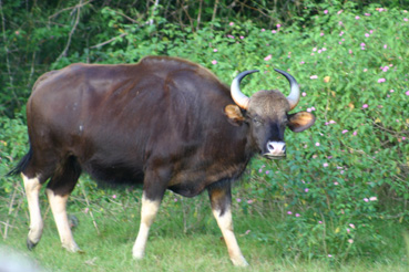 Indian Gaur or Bison